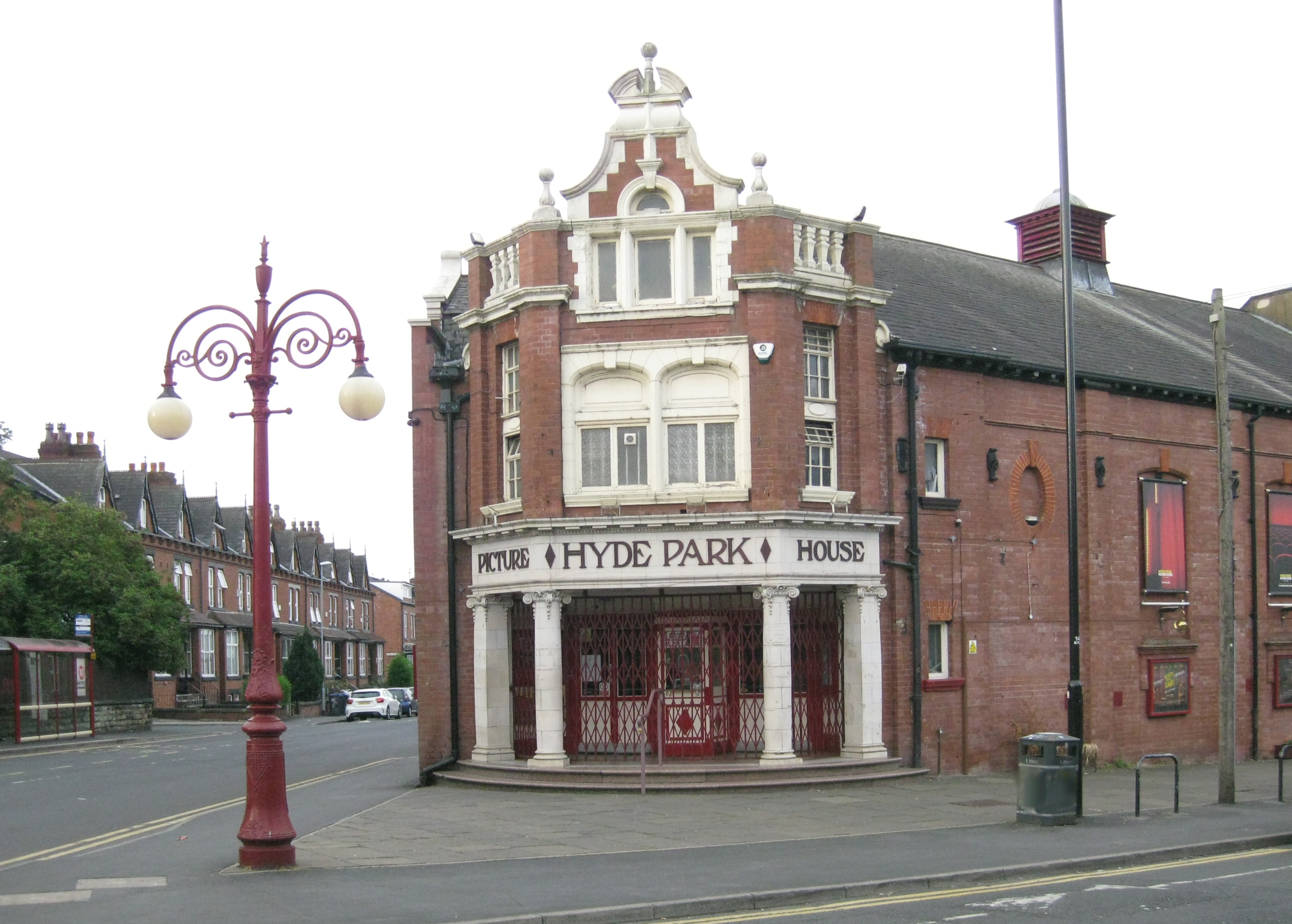 Hyde Park Picture House, corner of Queens Road (left) and Brudenell Road (right).